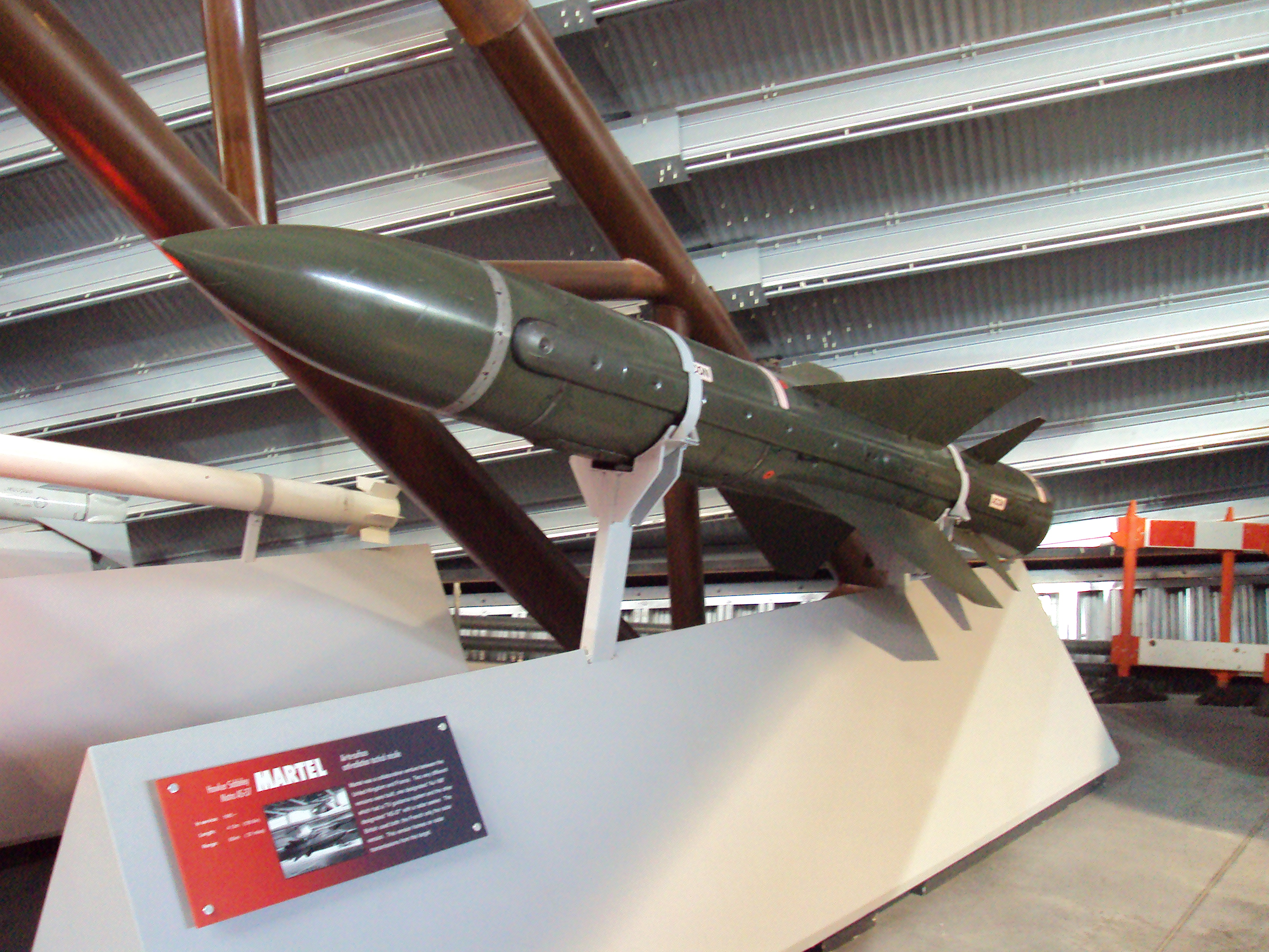 Hawker-Siddeley Martel missile. Photo taken at the RAF Museum Cosford, Shropshire, England.